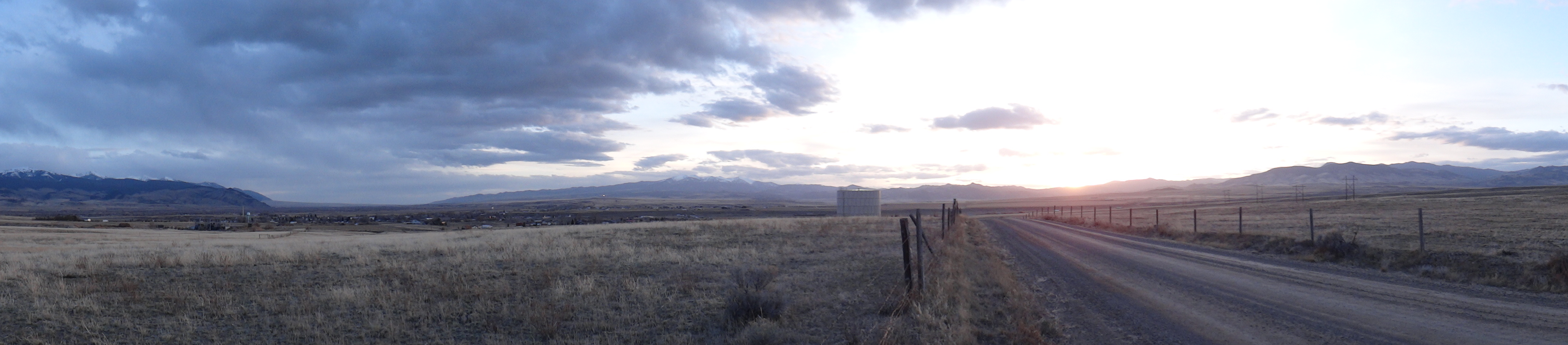 Panorama looking south west